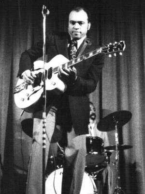 Jazz guitarist Roy Gaines in France